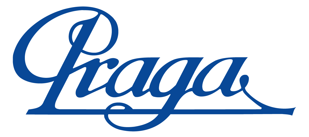 Main logo of Praga